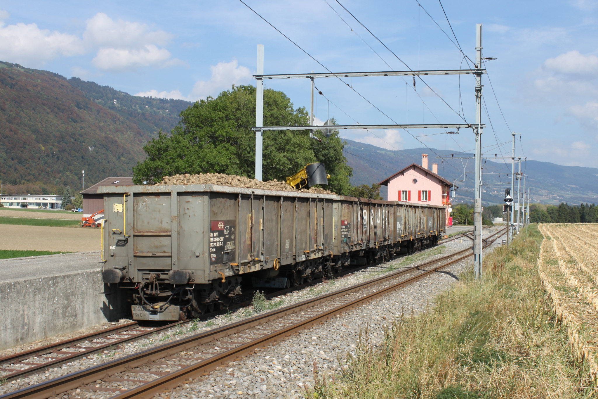 Four Eaos standard gauge open wagons of SBB CFF FFS being loaded with sugar beets at Vuiteboeuf station on metre gauge railway from Yverdon-les-Bains to Sainte-Croix.